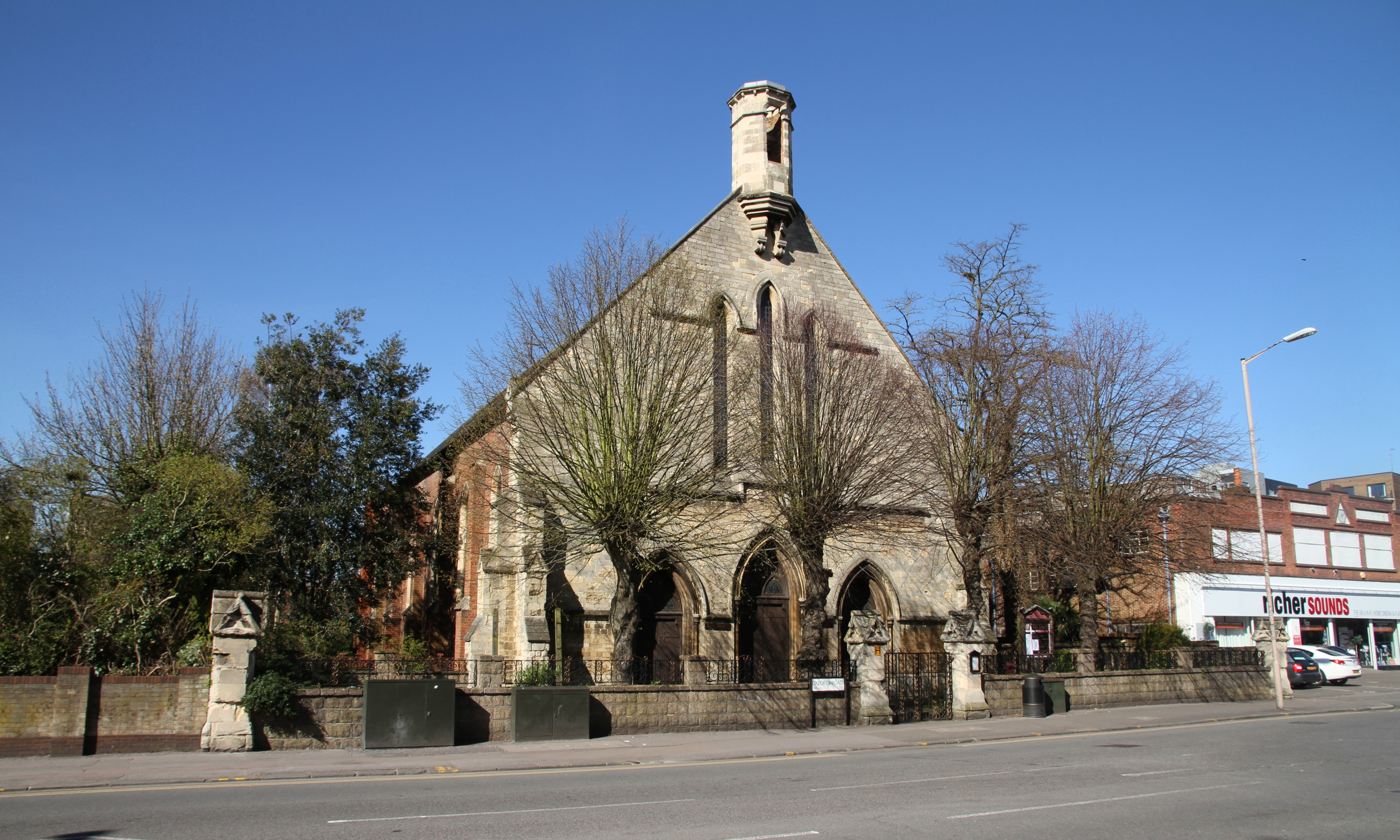 Church of England parish church of the Most Holy Trinity, Oxford Road, Reading, Berkshire, England: view of the south front, remodelled in 1845 to the designs of John Billing